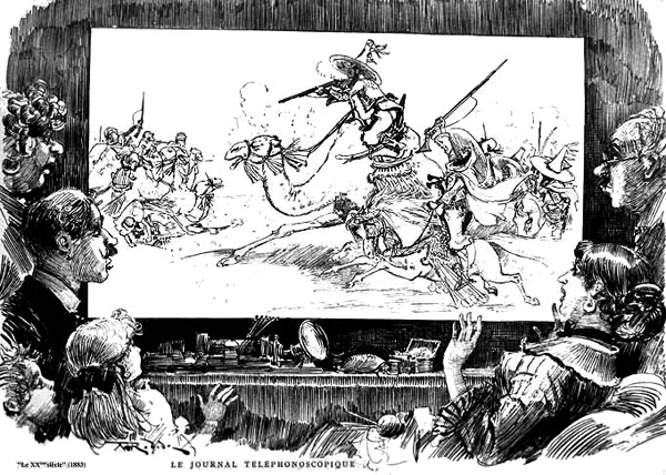 Dessin of Albert Robida's "Téléphonoscope".